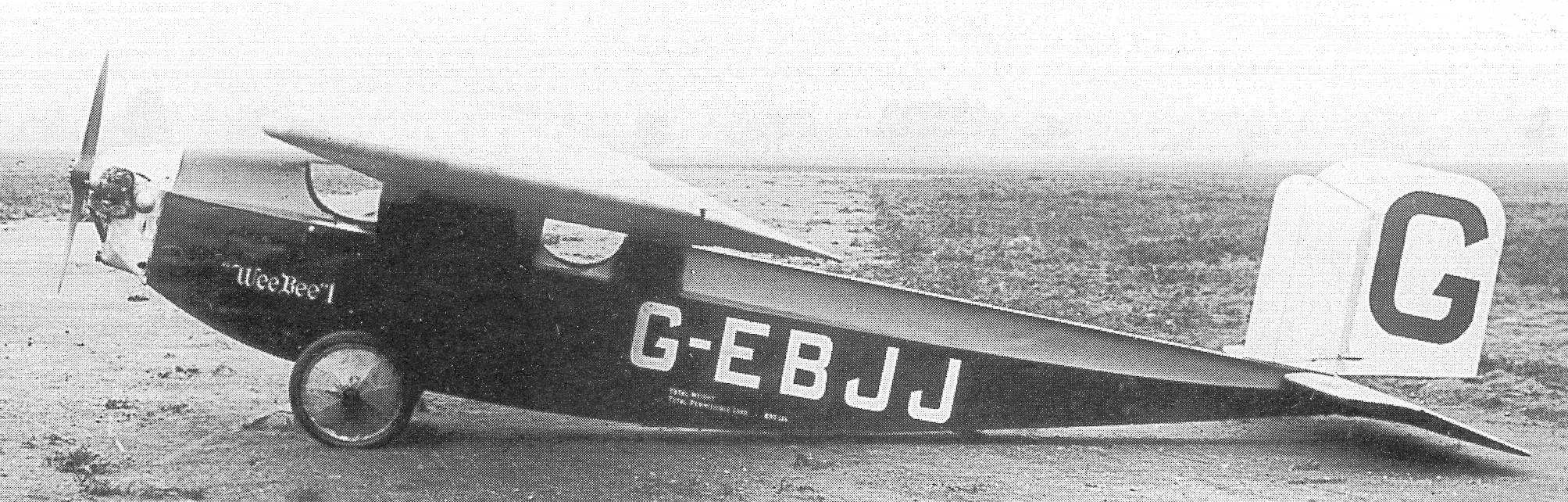 The sole Beardmore W.B.XXIV Wee Bee I, early 1926.